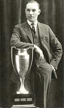 Frank Nighbor with the original Hart Trophy in 1923. Source [1]